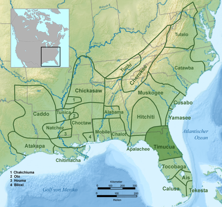 Tribal territory of Timucua during seventeenth century